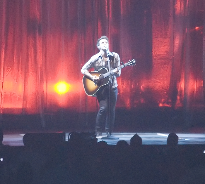 Kris Allen at the American Idol Concert